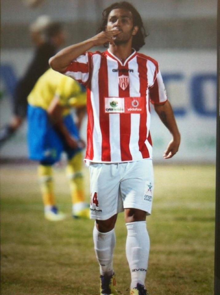 Diego León Ayarza (born 16 January 1984 in Palencia, Castile and León) is a Spanish footballer